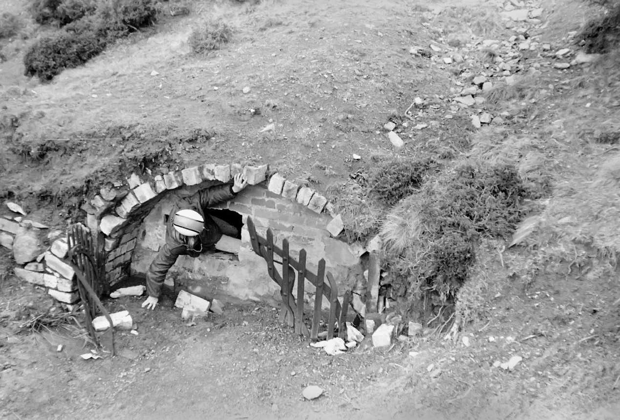 Here's me entering the tram tunnel near Blaenafon wearing a motorcycle crash helmet.